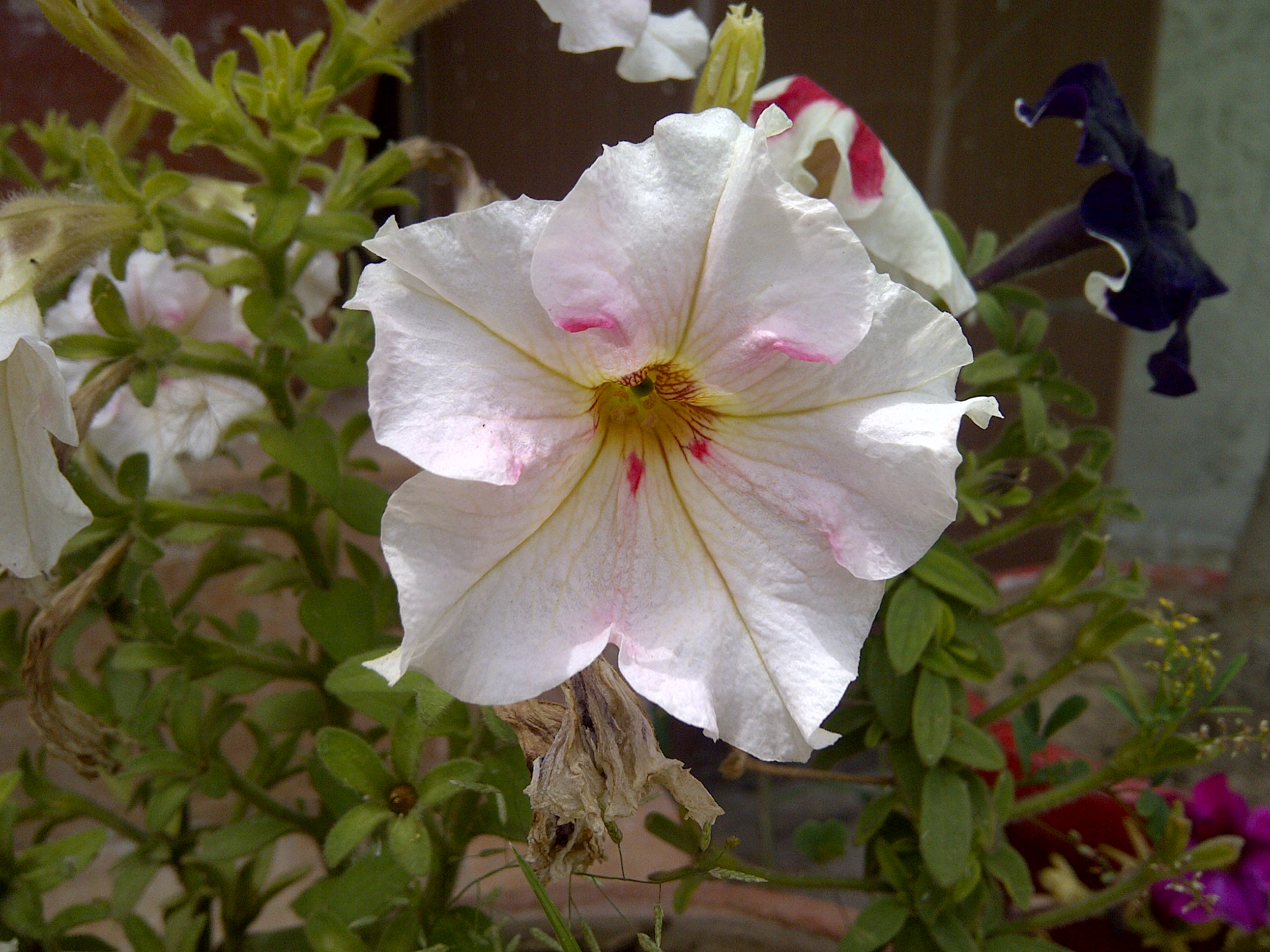 Petunia